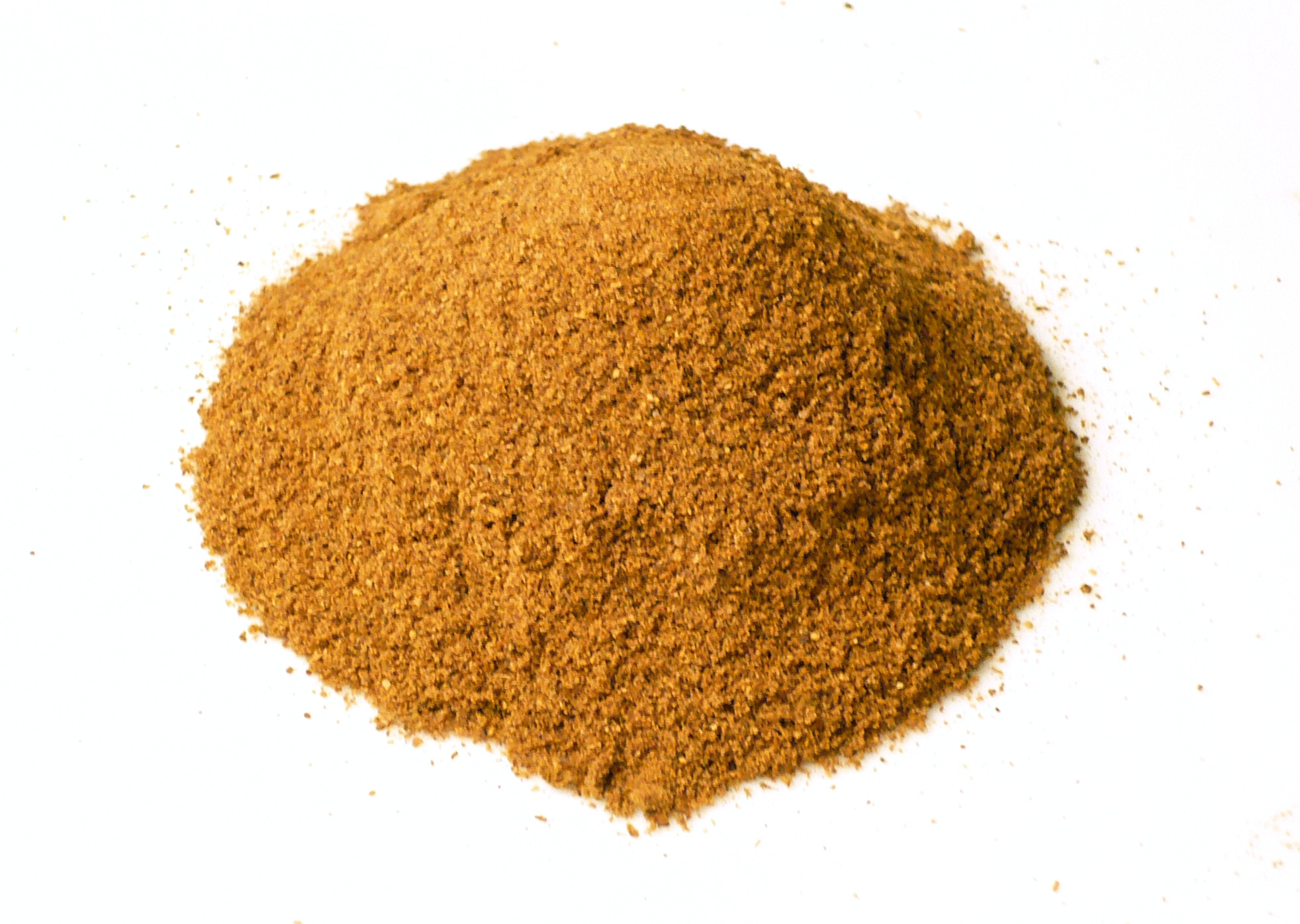 Ethiopian berbere. Photo taken in Kent, Ohio with a Panasonic Lumix digital camera (model DMC-LS75).